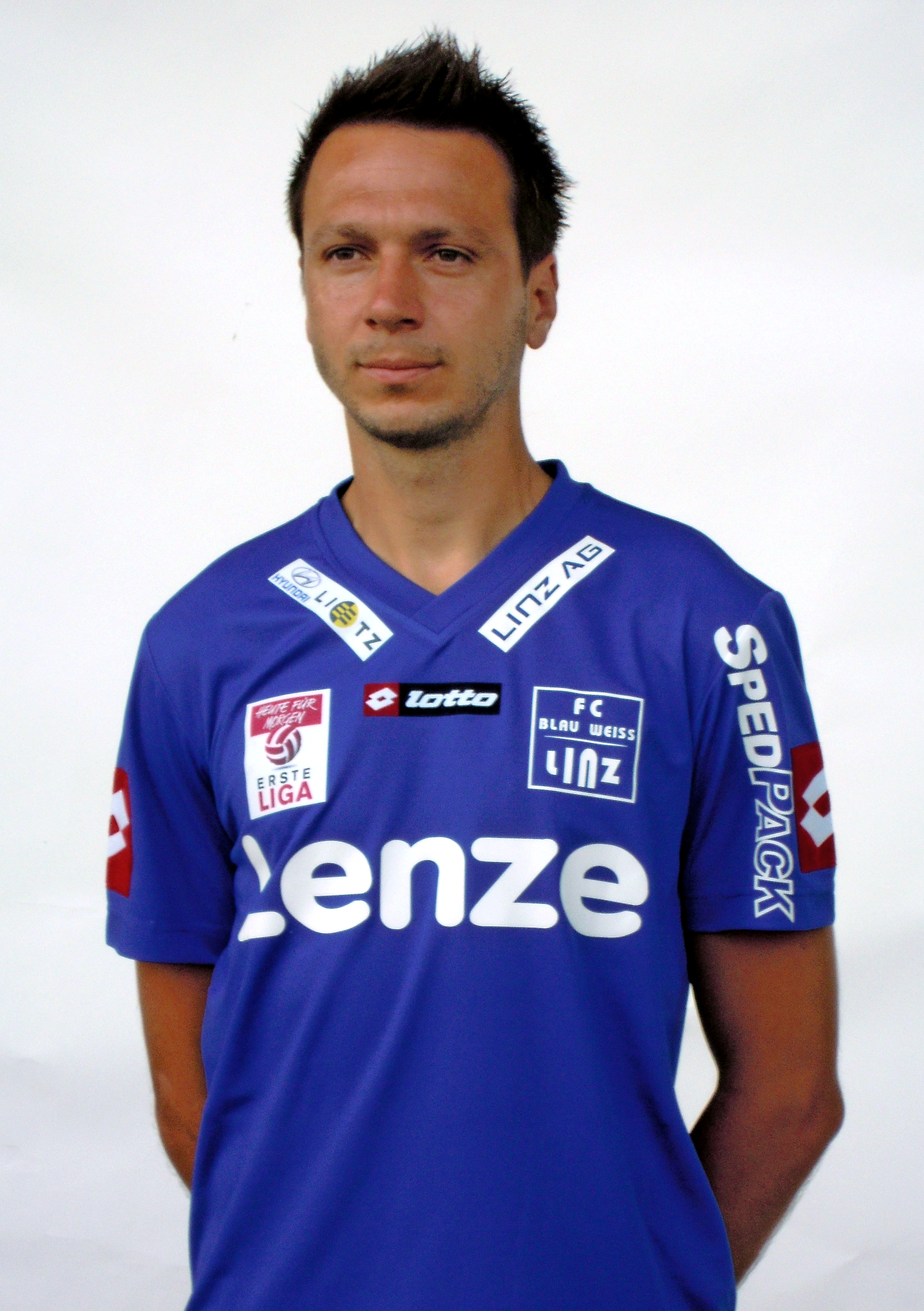 Wolfgang Bubenik, player of FC Blau-Weiss Linz, during a photo shoot on 30 June 2012 at the stadium of Linz